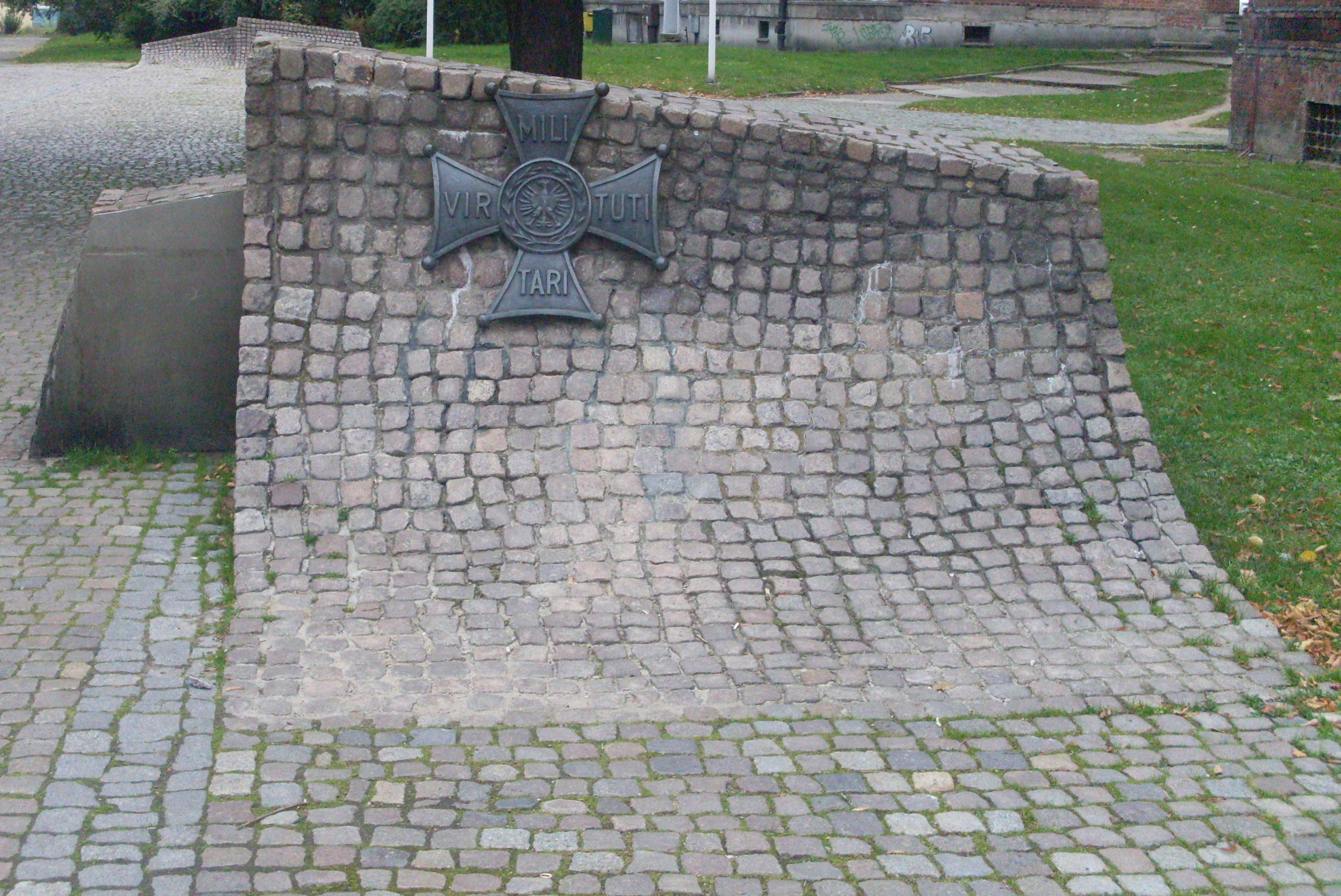 Virtuti Militari near Polish Post Office in Gdańsk. Commemorate recognized this military decoration to Defenders of Polish Post Office in Gdańsk 1 Semptember 1939.